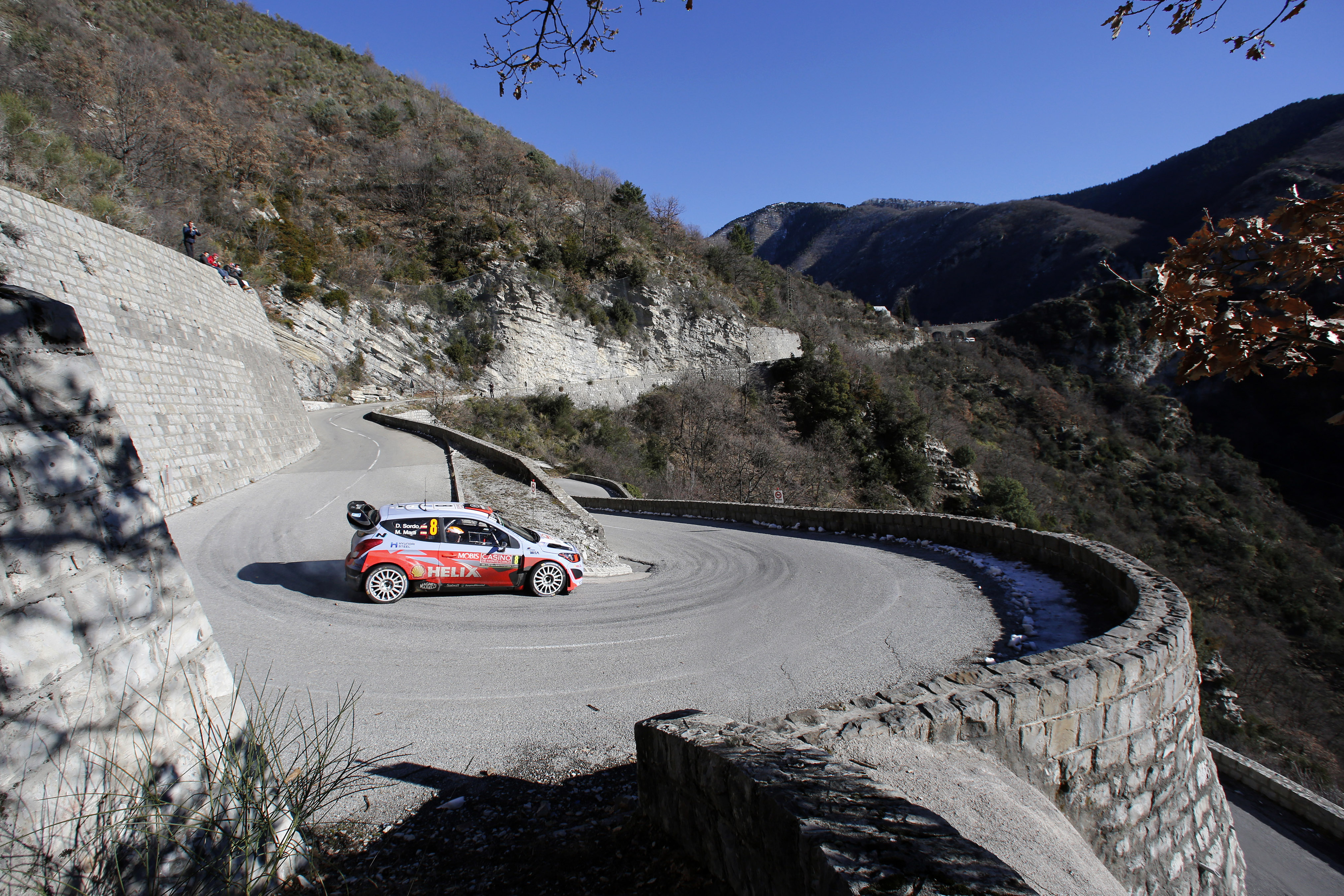 Dani Sordo and co-driver Marc Martí in their Hyundai i20 WRC at the 2015 Rallye Automobile Monte Carlo.